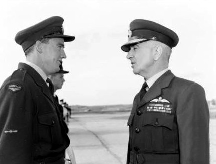 Malta: Ta Kali. The designate Chief of Staff of the RAAF, Air Vice Marshal J P J McCauley CB, CBE (right), chats with Leading Aircraftman Bob Seymour of Auburn, NSW during his official visit to 78 Fighter Wing RAAF at their base in Malta. The Wing would soon return to Australia after about 18 months garrison duty in Malta and around the Mediterranean.